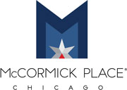 McCormick Place Logo low res